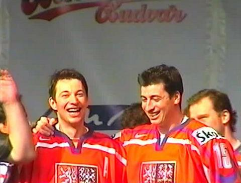 Czech ice hockey players František Kaberle (left) and his brother Tomáš Kaberle